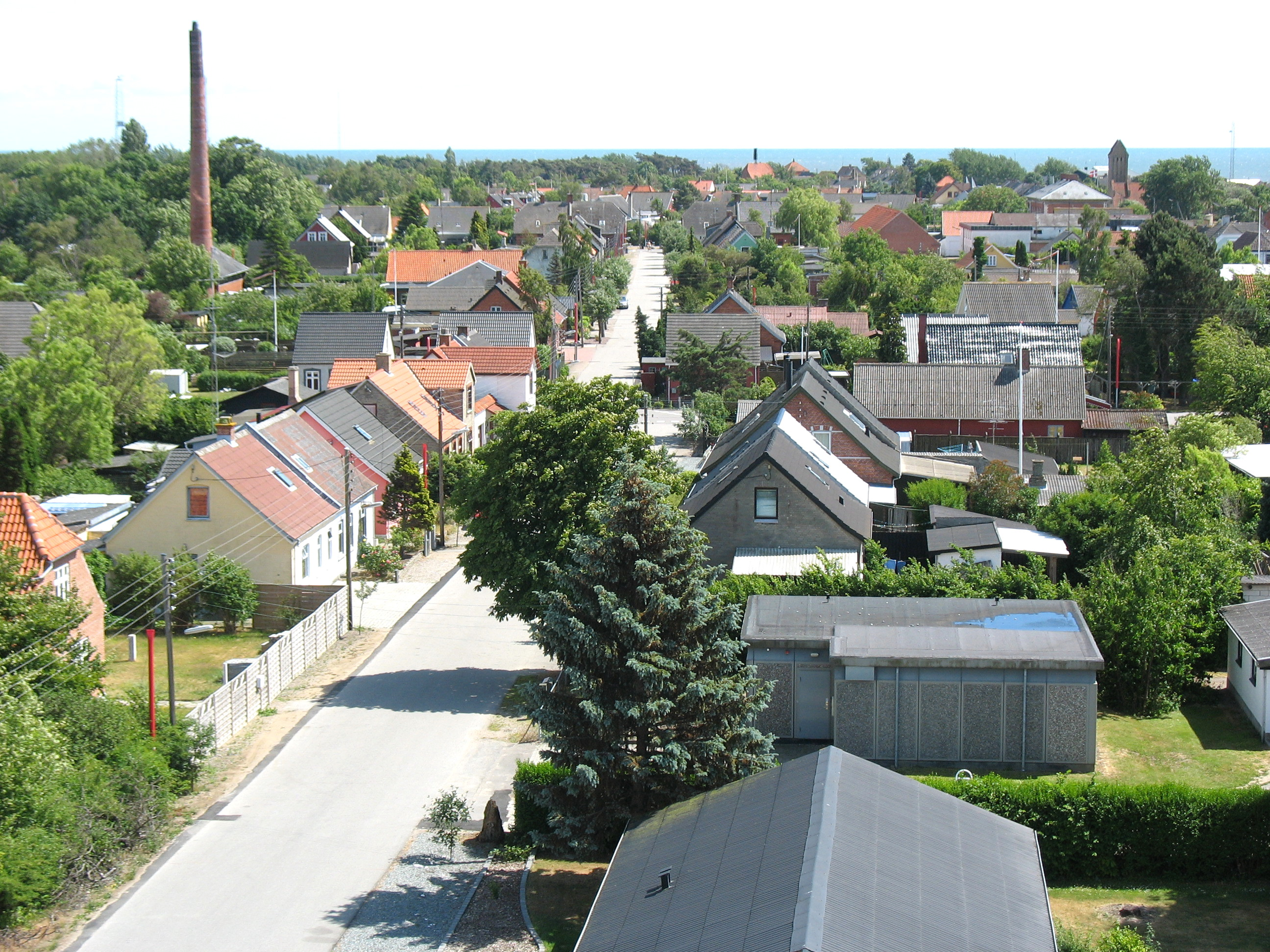 View over the small town "Gedser" on the Danish island Falster. Gedser is the most southern town in Denmark.